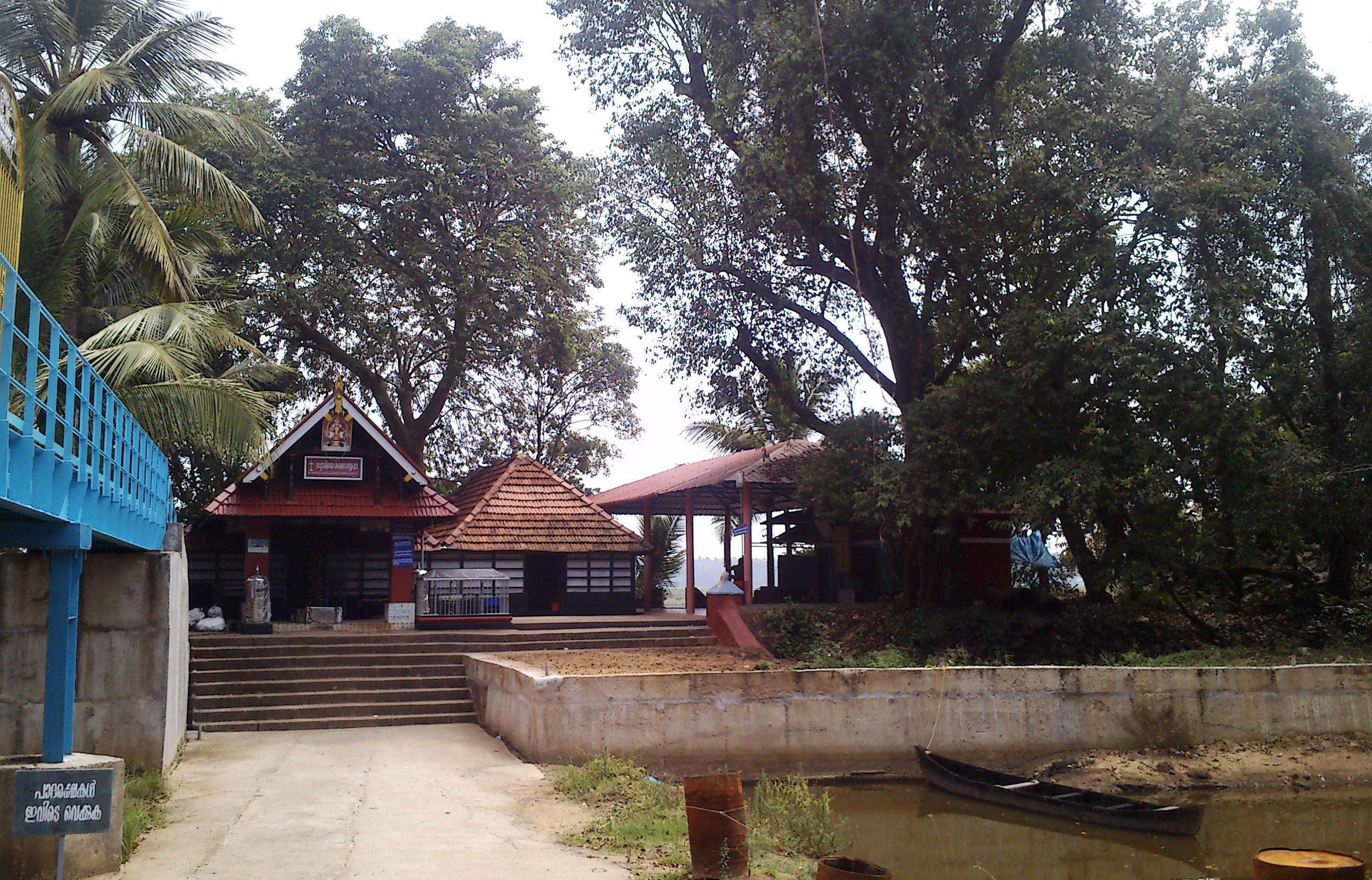 This media file is uploaded with Malayalam loves Wikimedia event - 3.